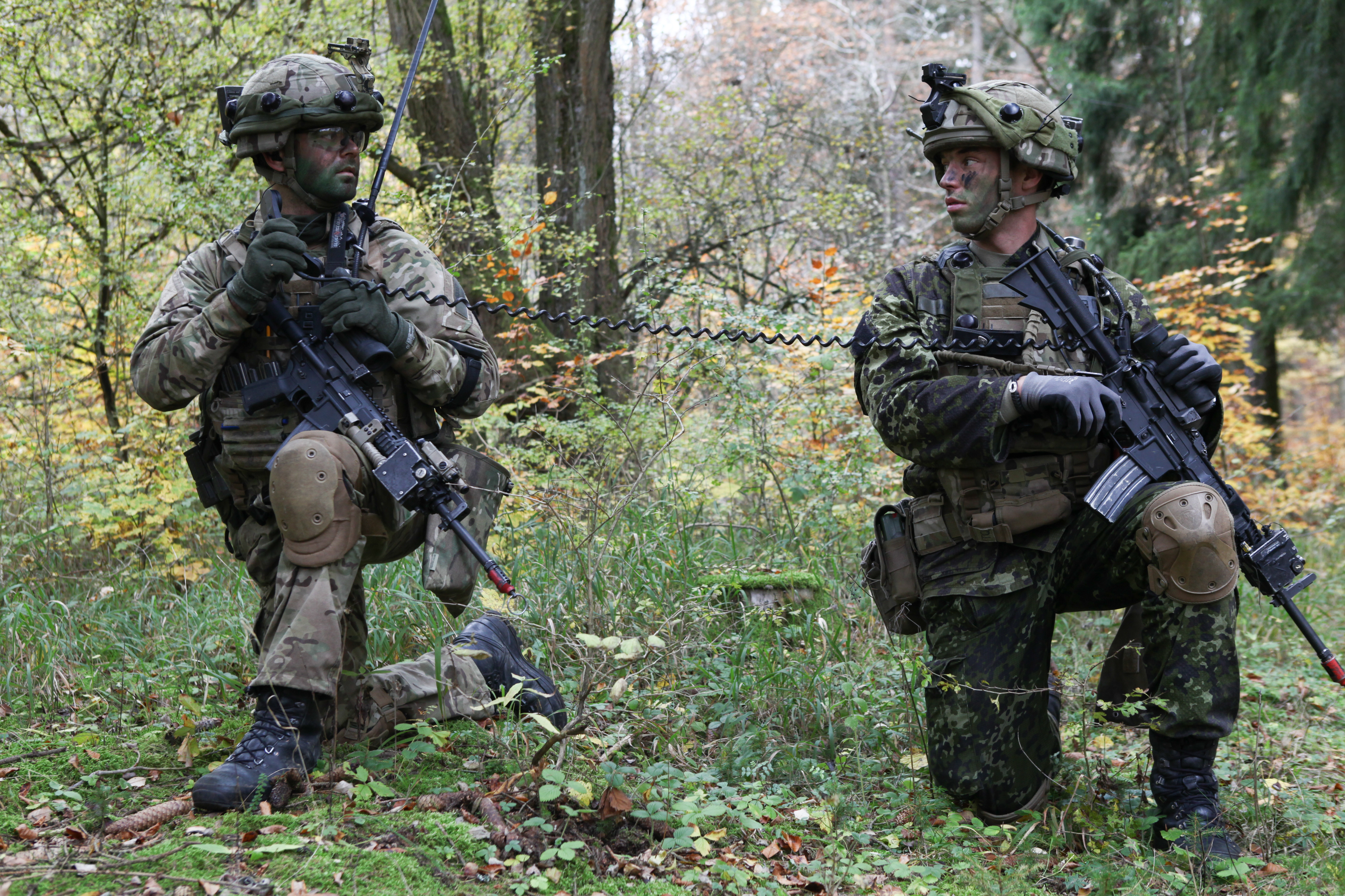 Danish soldiers exchange information while conducting zone reconnaissance during exercise Combined Resolve III at the Joint Multinational Readiness Center in Hohenfels, Germany, Nov. 5, 2014. Combined Resolve III is a multinational exercise, which includes more than 4,000 participants from NATO and partner nations, and is designed to provide a complex training scenario that focuses on multinational unified land operations and reinforces the U.S. commitment to NATO and Europe. (U.S. Army photo by Pfc. Lloyd Villanueva/Released)